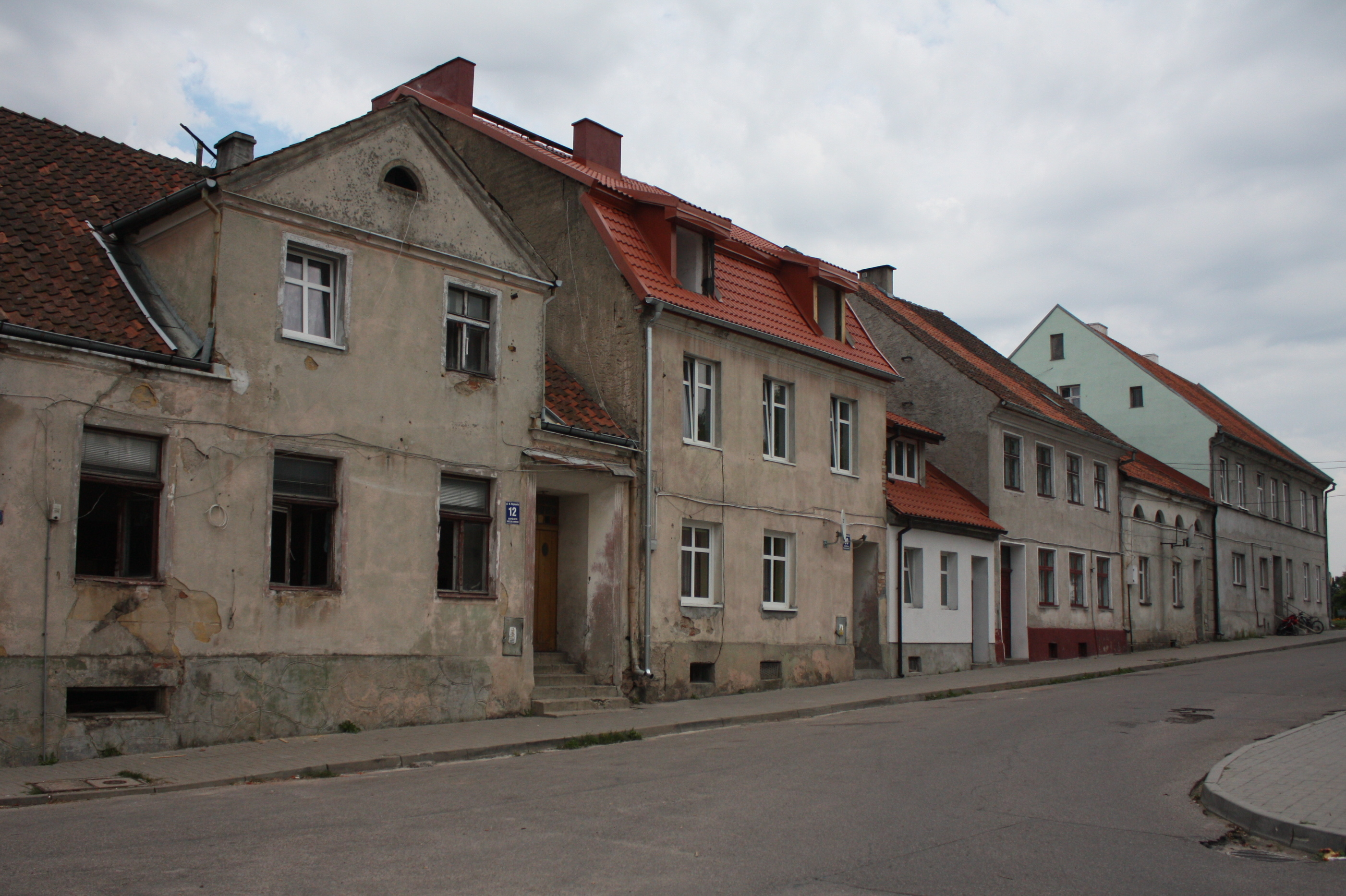 This photo of Warmian-Masurian Voivodeship was taken during Wikiexpedition 2012 set up by Wikimedia Polska Association.You can see all photographs in category Wikiekspedycja 2012. The making of this document was supported by Wikimedia Polska.